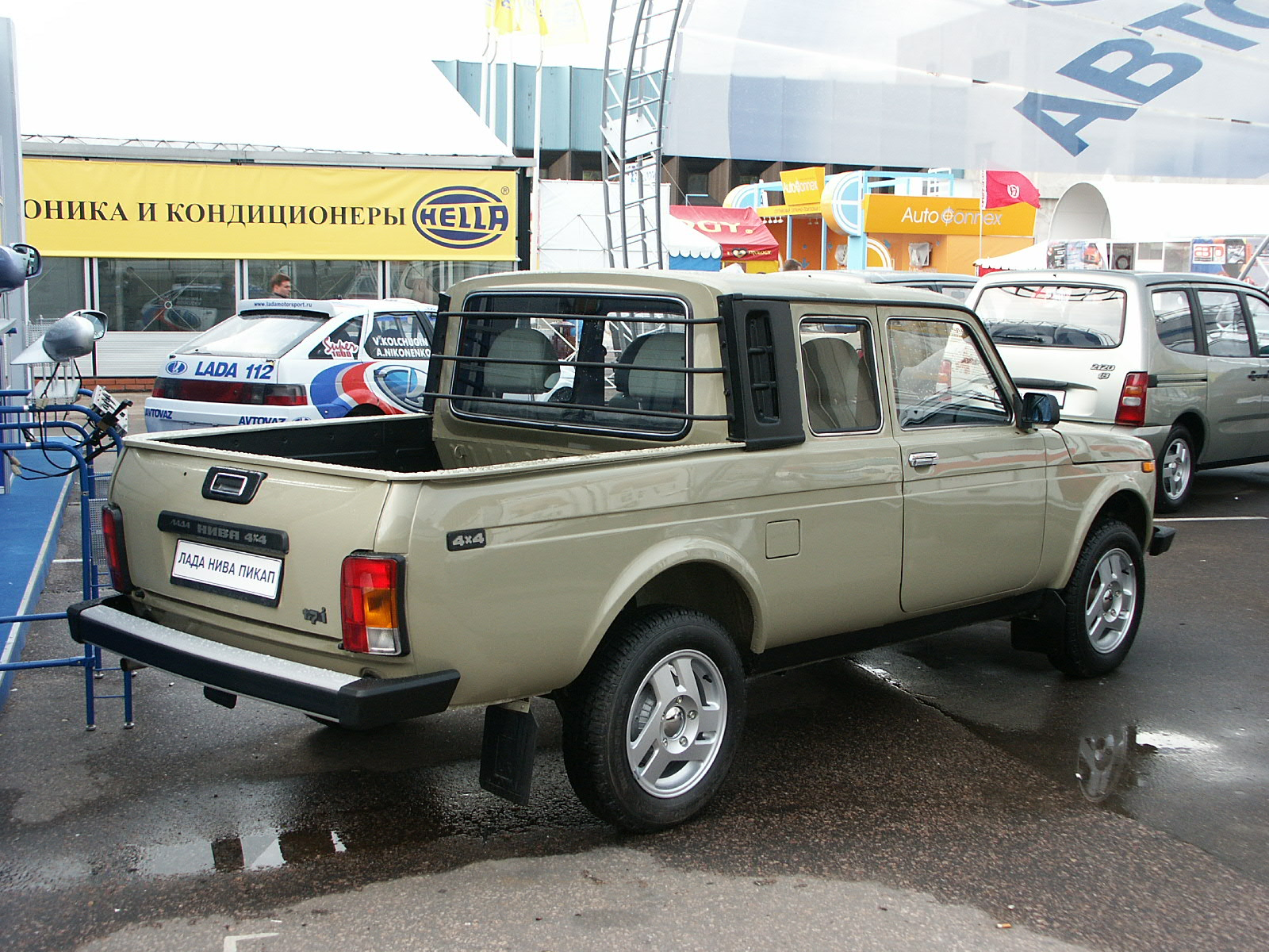 VAZ-2329 based on VAZ-2131